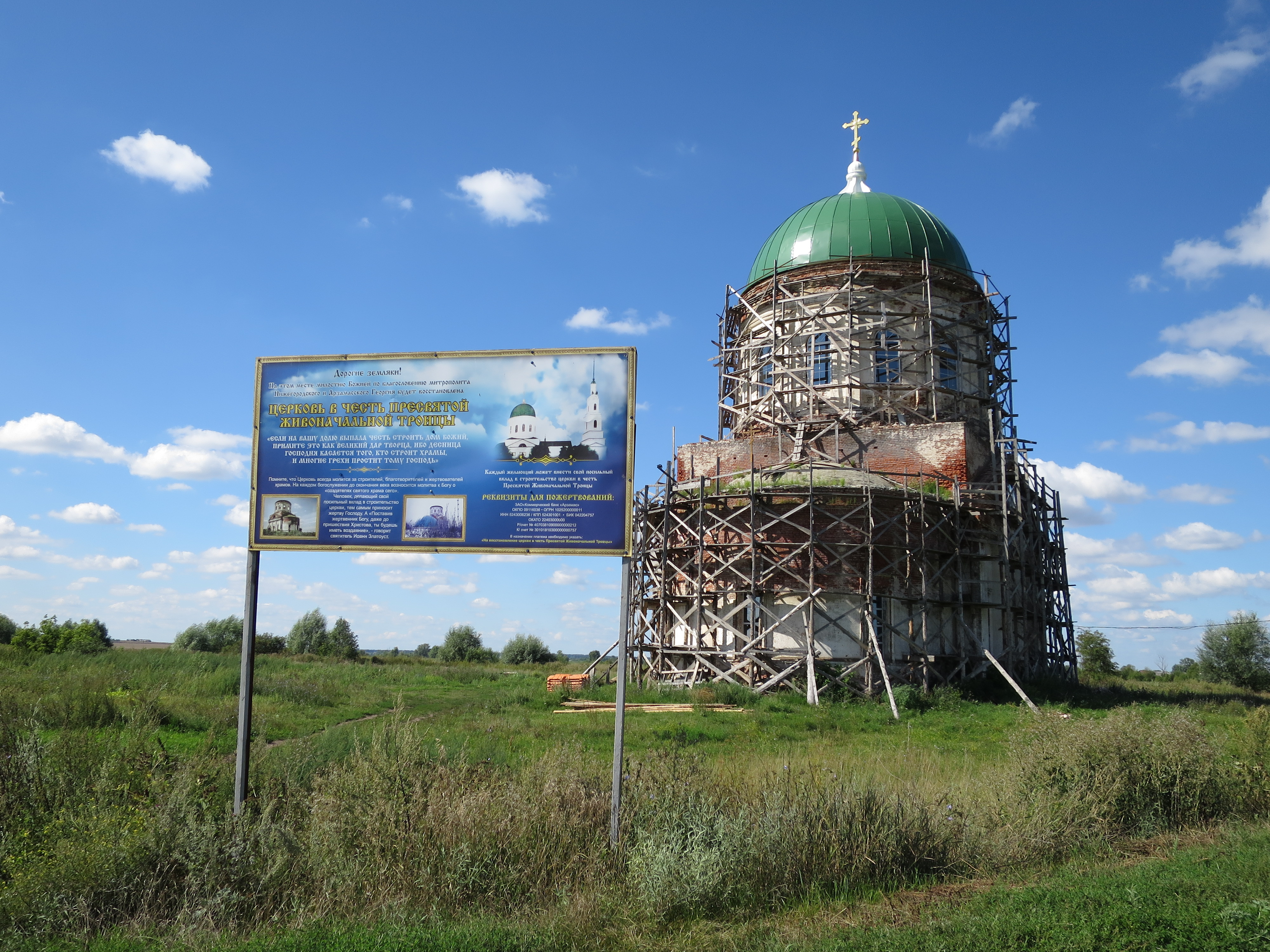 Church in Semenov Arzamas area